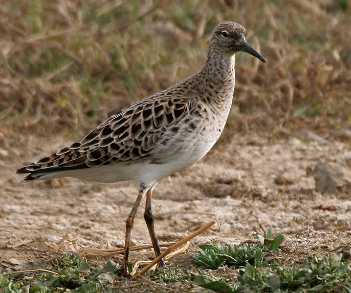 Ruff Philomachus pugnax near Hodal, Faridabad, Haryana, India.